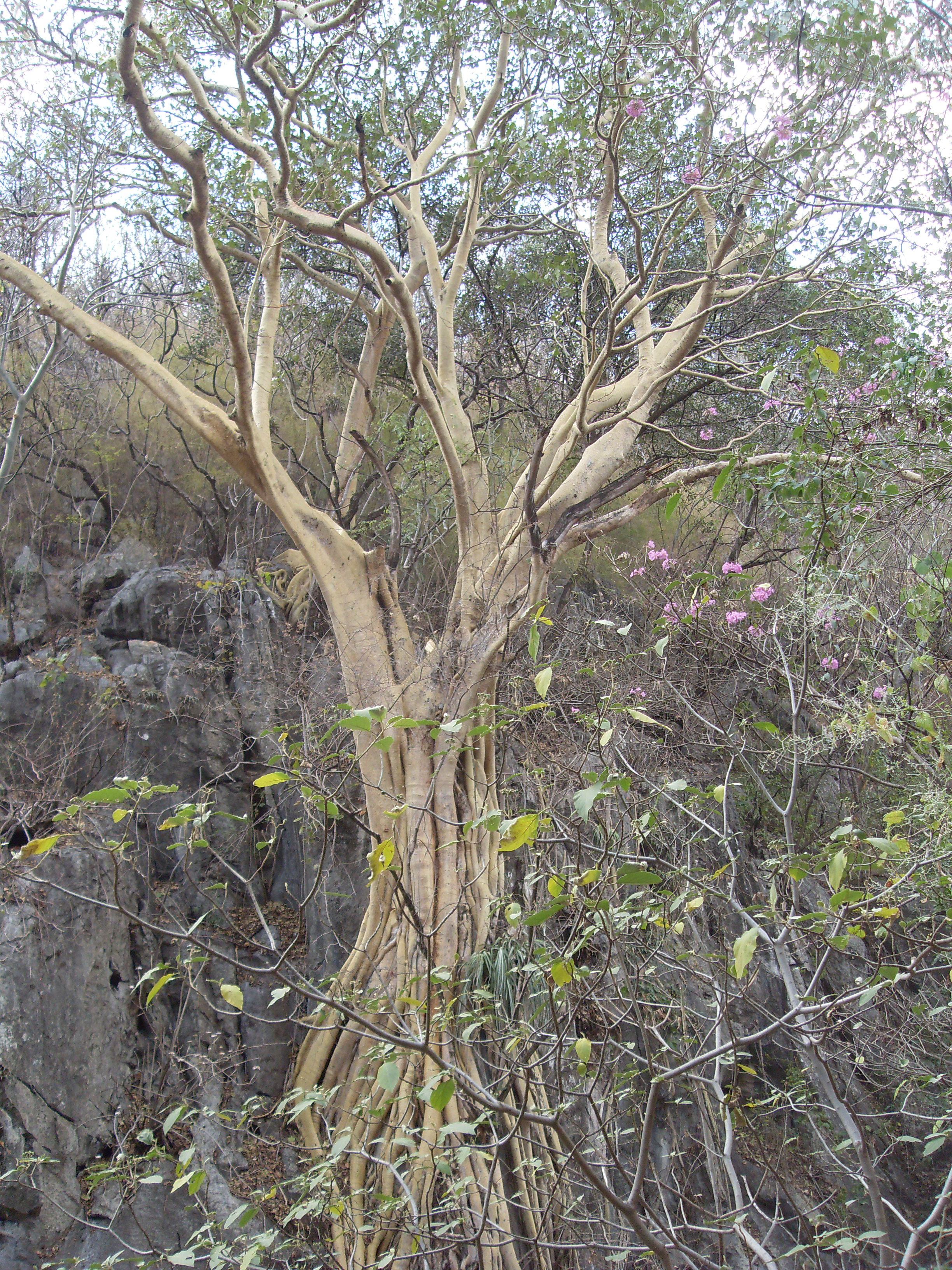 A tree at Cacauamilpa caves, Mexico